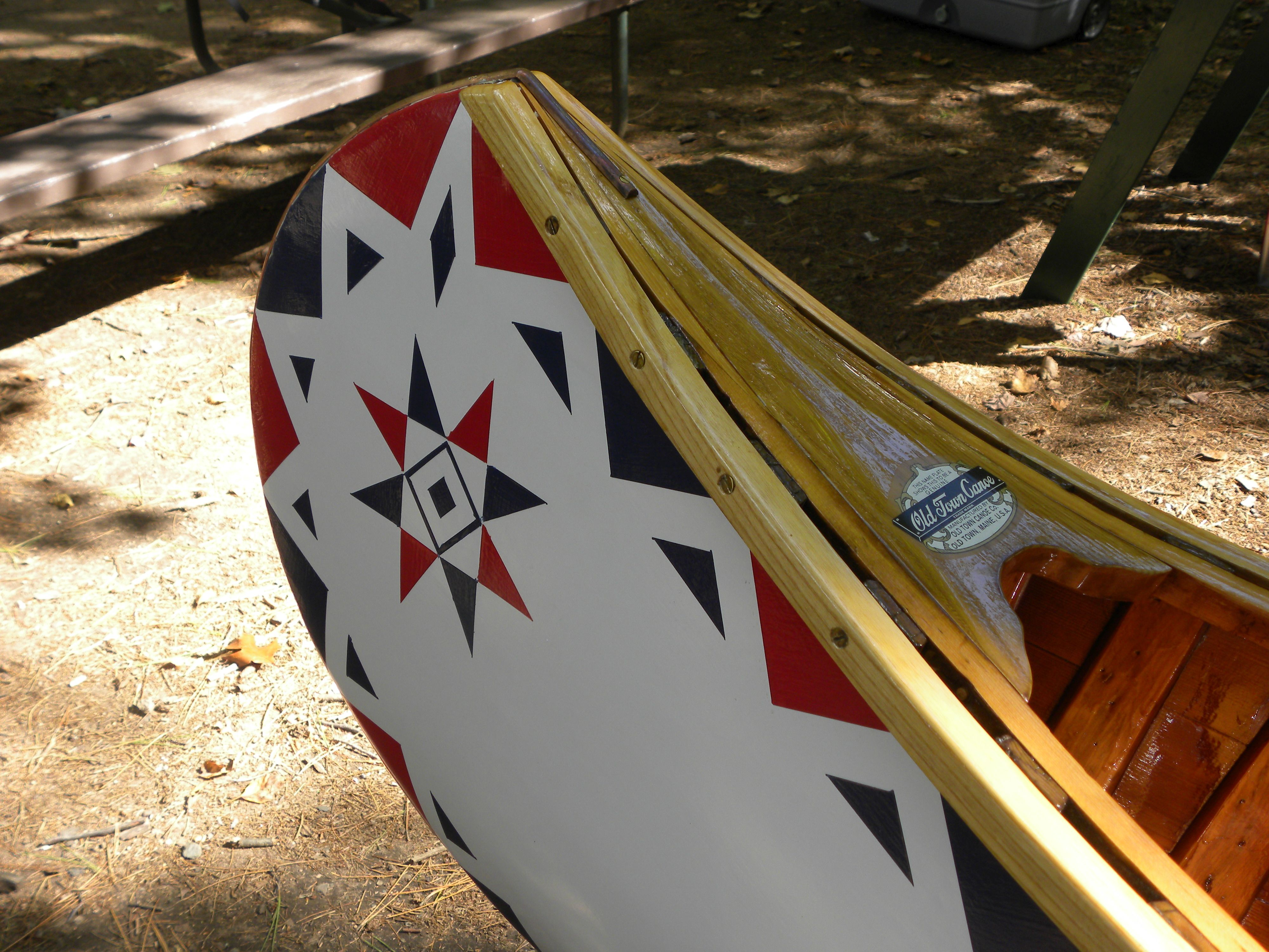 Old Town design no.4 on 1934 HW model wood-canvas canoe